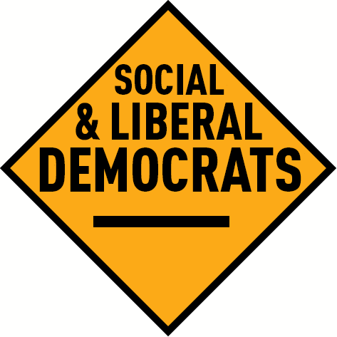 Logo of the Social and Liberal Democrats